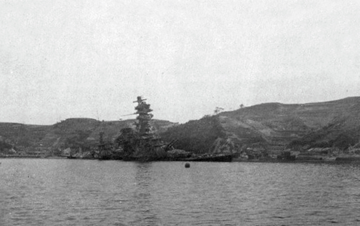 The sunken Japanese battleship Ise off Ondo Seto island, near the Kure Naval Arseanal, Japan, circa in October 1945.